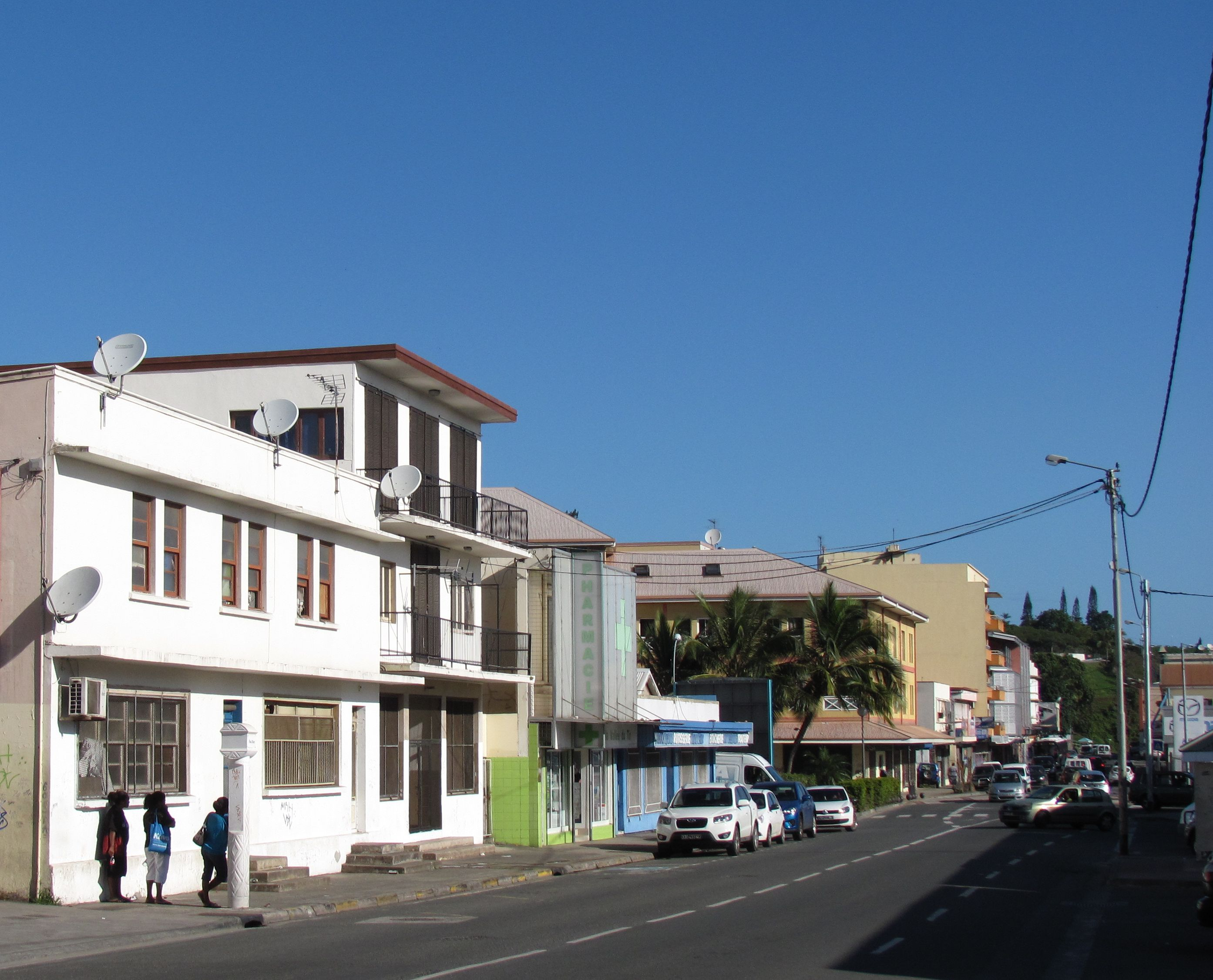 Rue E. Unger, Vallée du Tir, Nouméa, New Caledonia